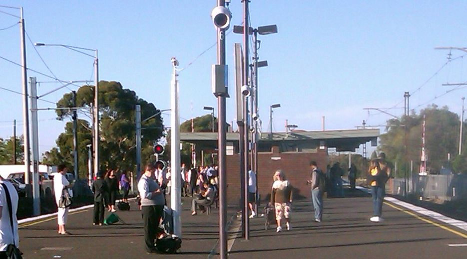 Lalor railway station Platform